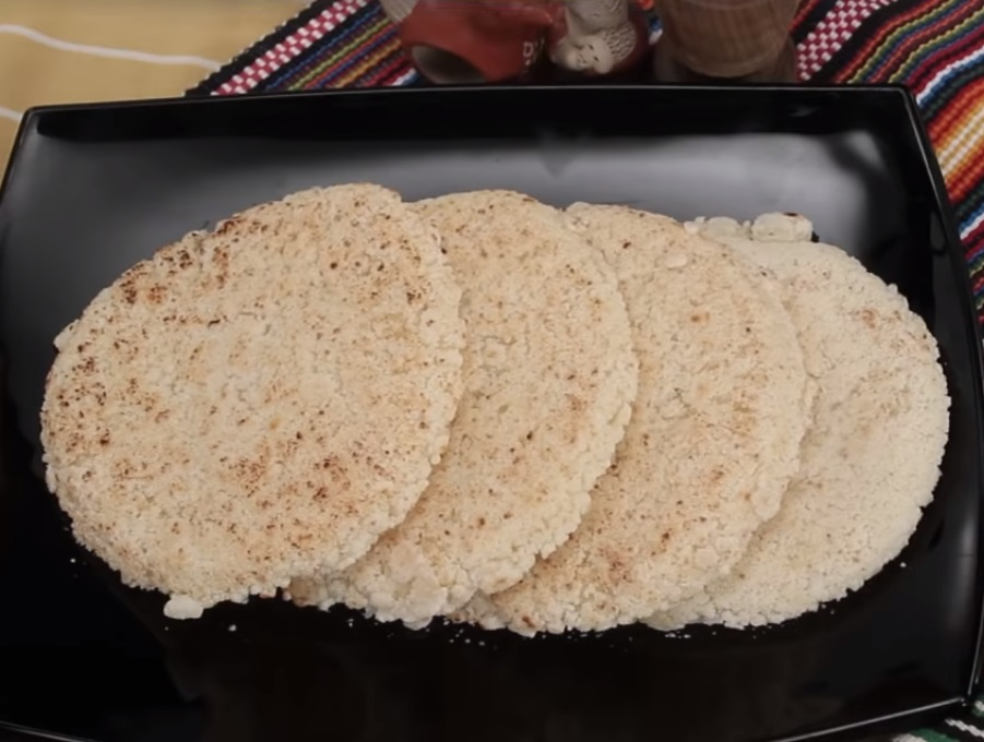 Mbeju is a typical paraguayan food, made of cassava flour, eggs, milk and pork fat.